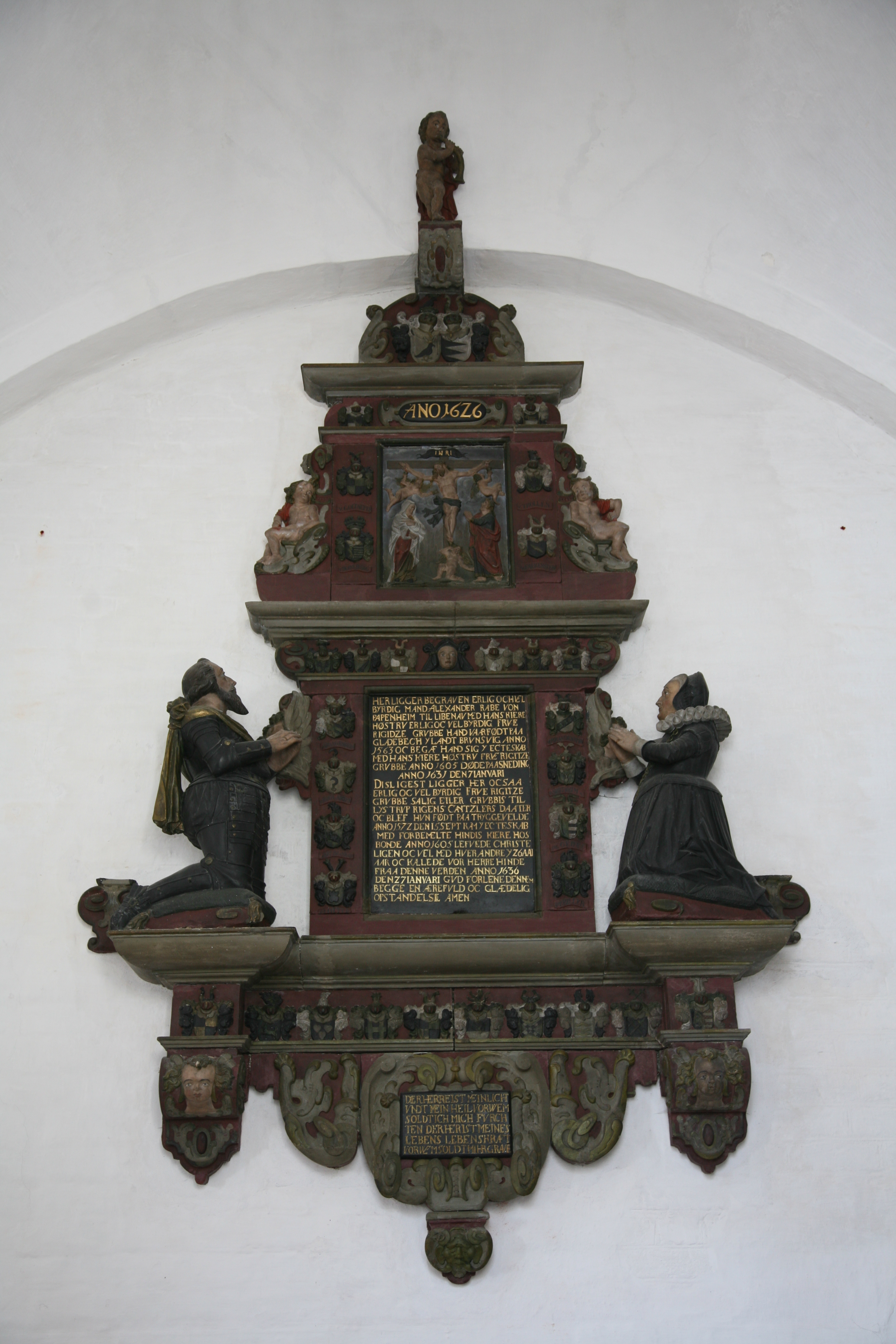 Ørslev church in Denmark